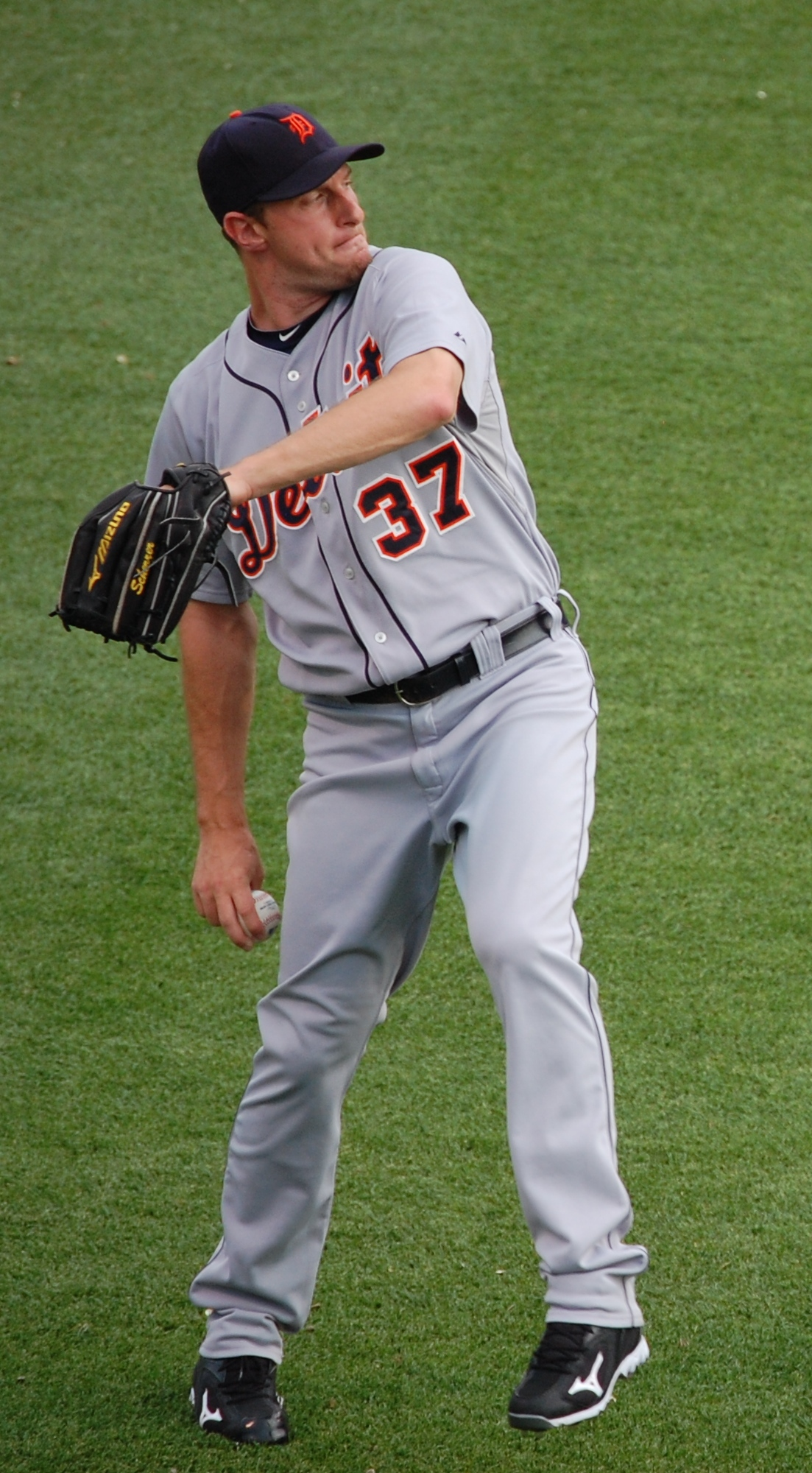 Max Scherzer warming up his arm during pre-game, Tigers at Royals, June 4, 2010.